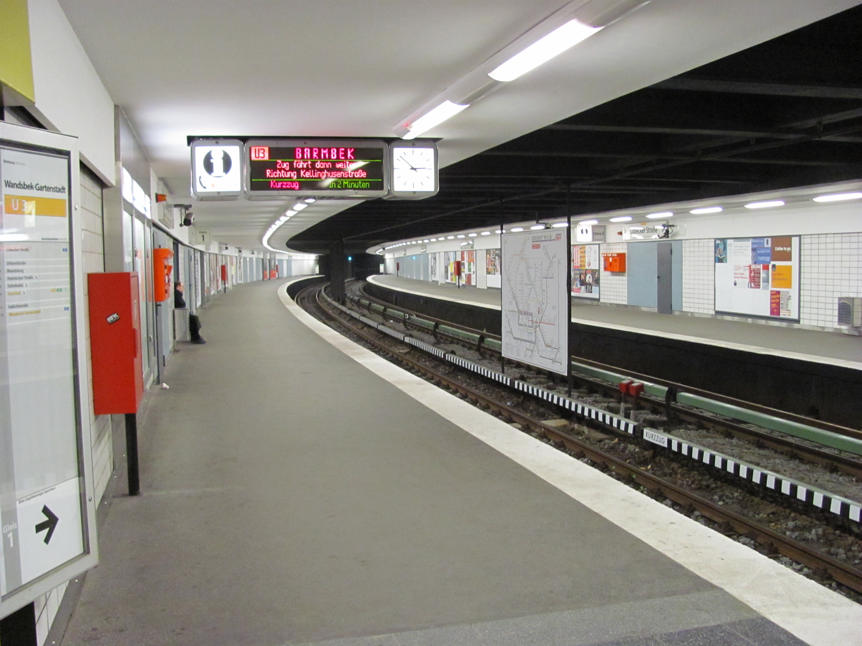 S-Bahn station Lübecker Straße in Hamburg, Germany